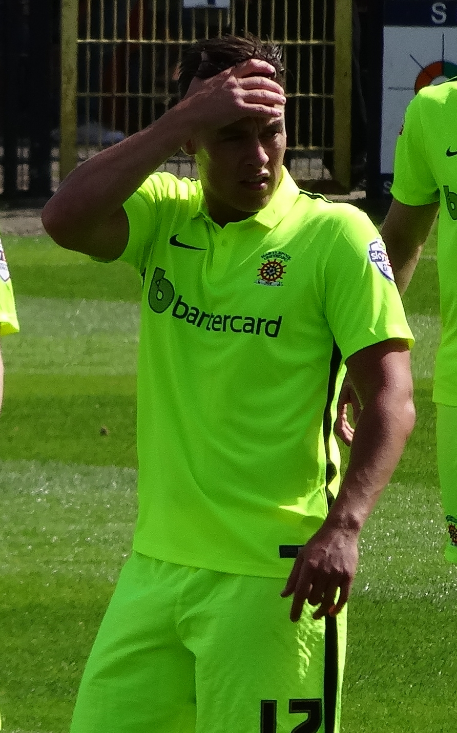 Scott Fenwick playing for Hartlepool United against York City at Bootham Crescent, York on 15 August 2015